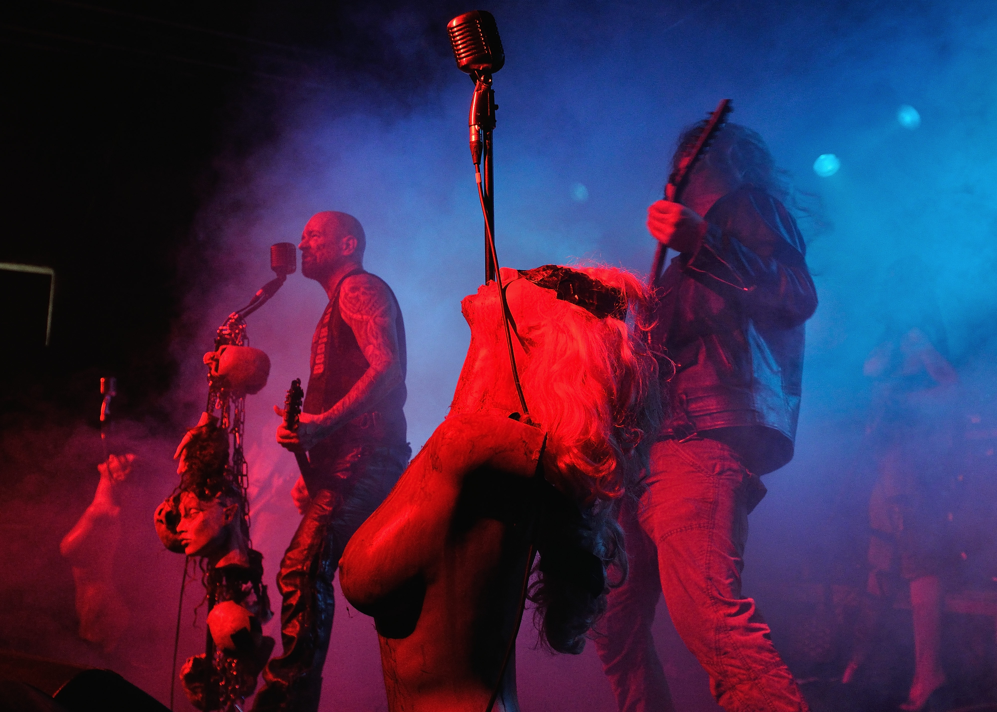 Debauchery at Hatefest 2015 in Berlin.